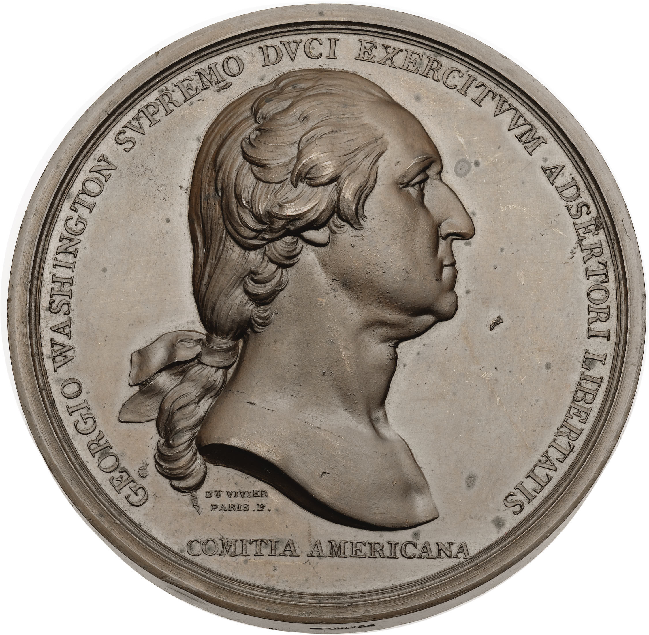 1776 Washington Before Boston Comitia Americana Second Restrike, (Baker-48G) (obv) (1100-28010)